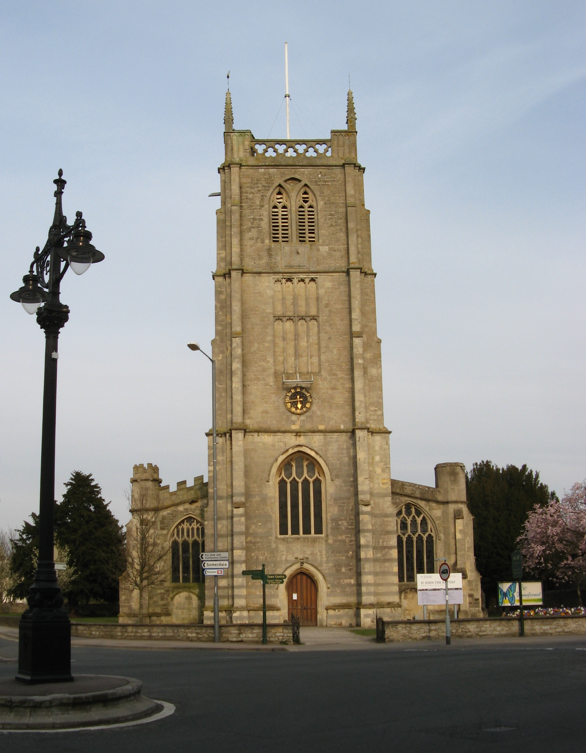 St John the Baptist, Keynsham. From roundabout at west end of High Street.